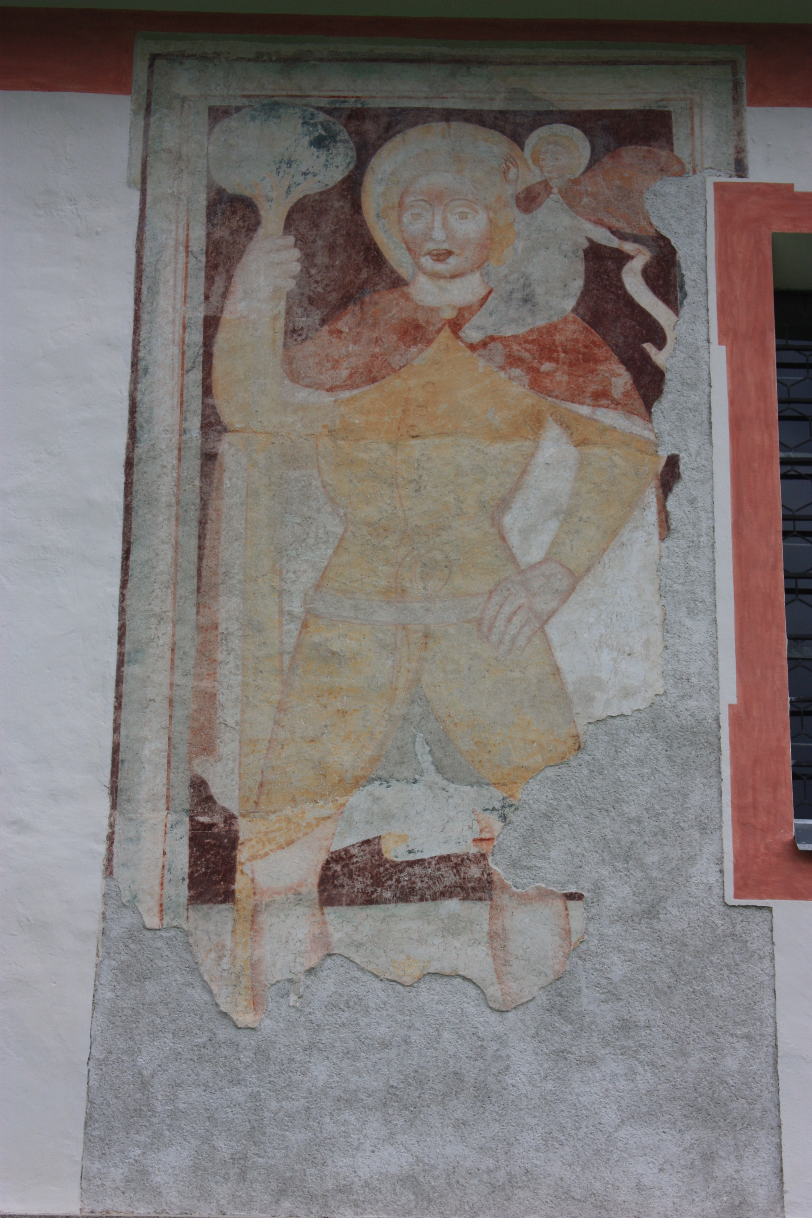 Church in Buchholz Locality:Buchholz Community:Treffen